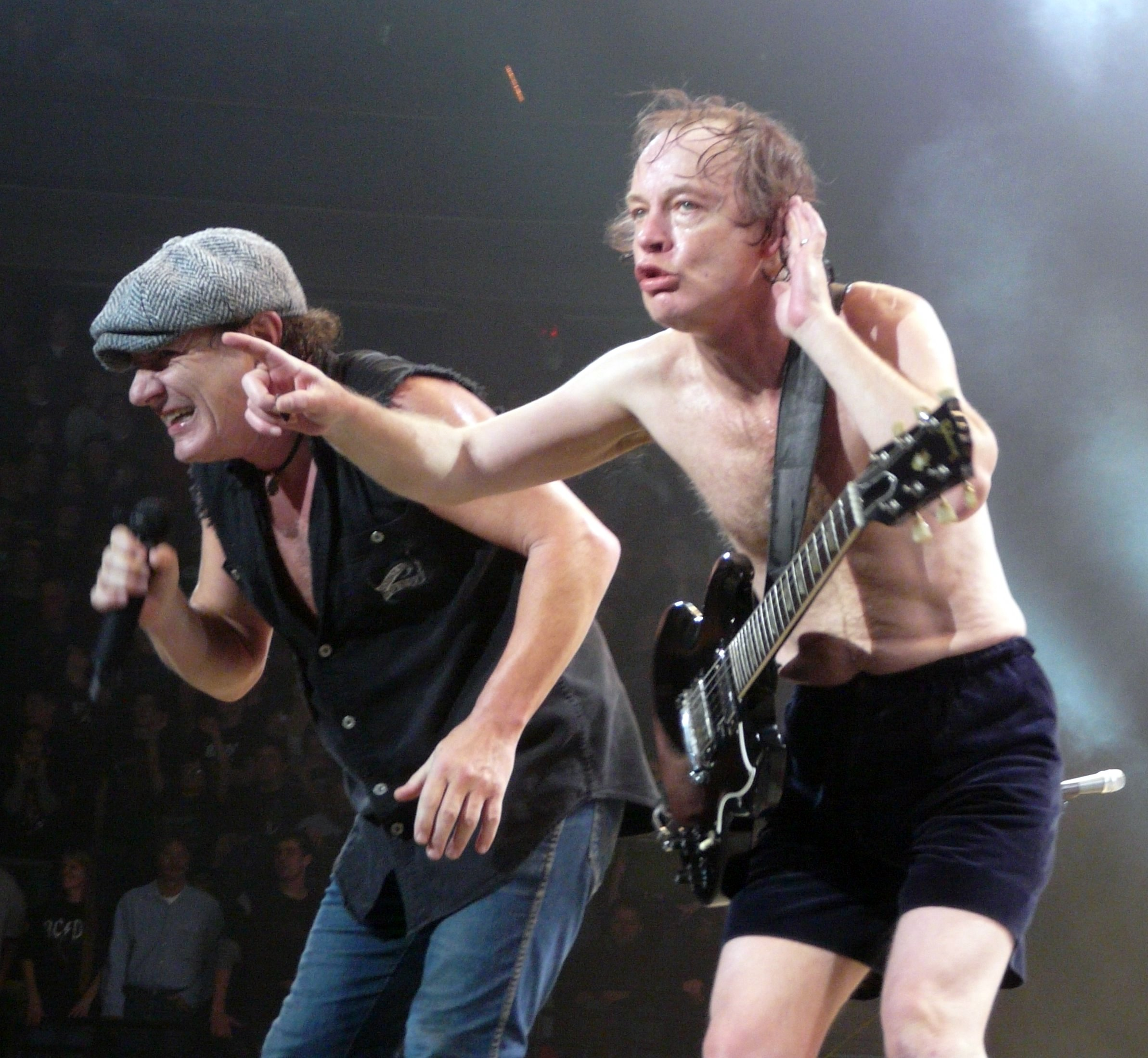 AC/DC Live November 23, 2008 in St. Paul, MN PHOTO BY MATT BECKER